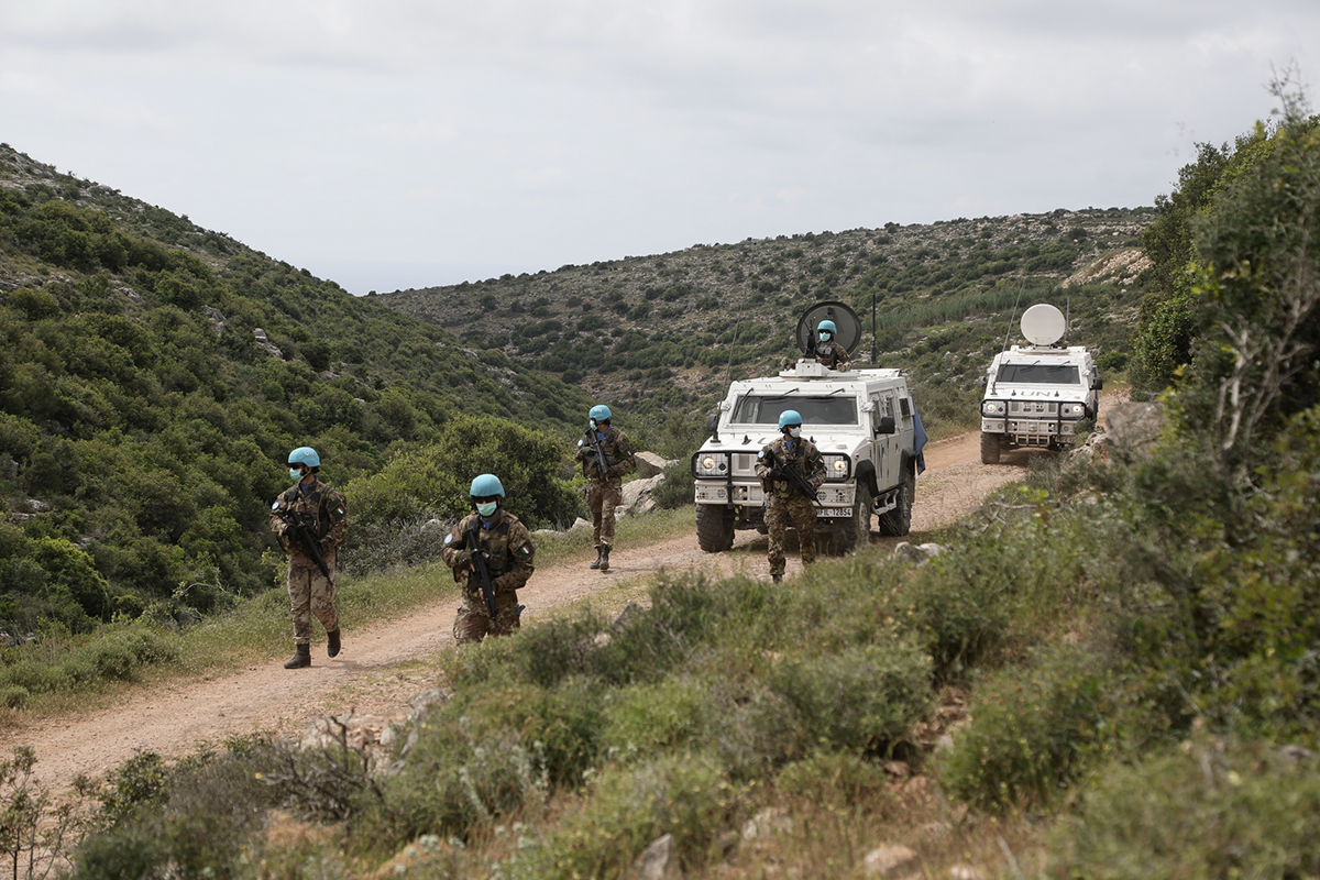 Italian Army: a Mechanized Brigade "Granatieri di Sardegna" patrol along the United Nations Interim Force in Lebanon controlled Blue Line in Southern Lebanon May 2020